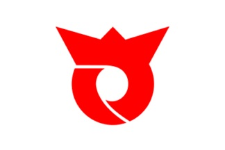 Flag of Sagae Yamagata